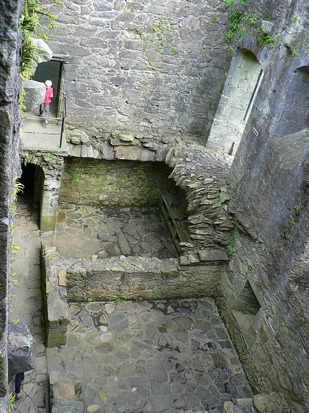 Carnasserie Castle interior Looking down, into the cellars below the hall of the castle. The floor of the hall would have been at the level where the boy is coming through the doorway.